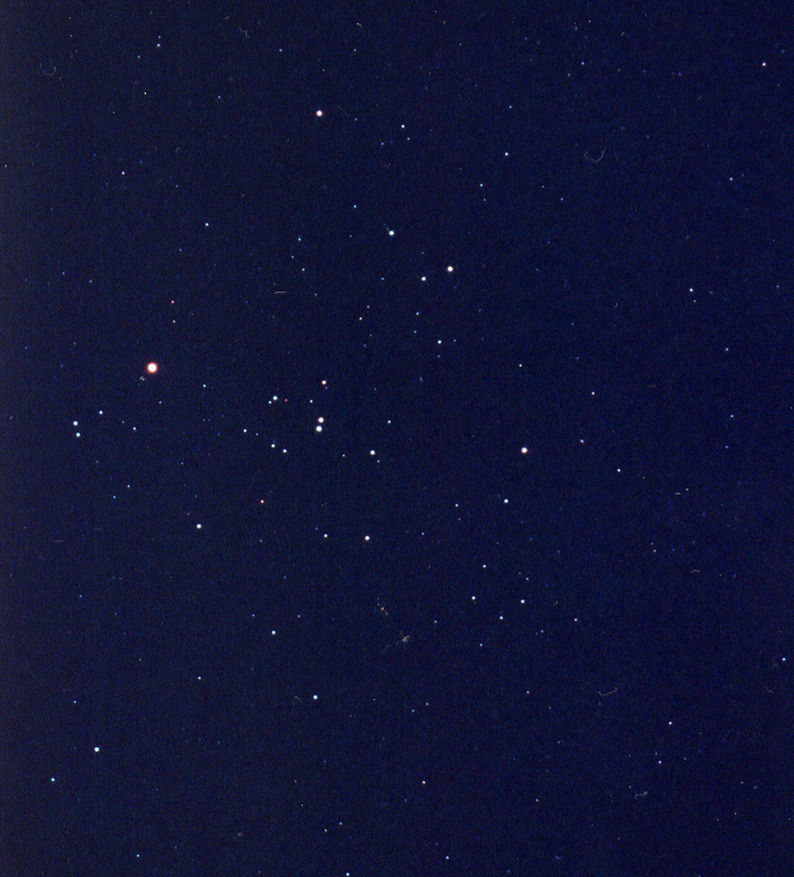 Hyades open cluster